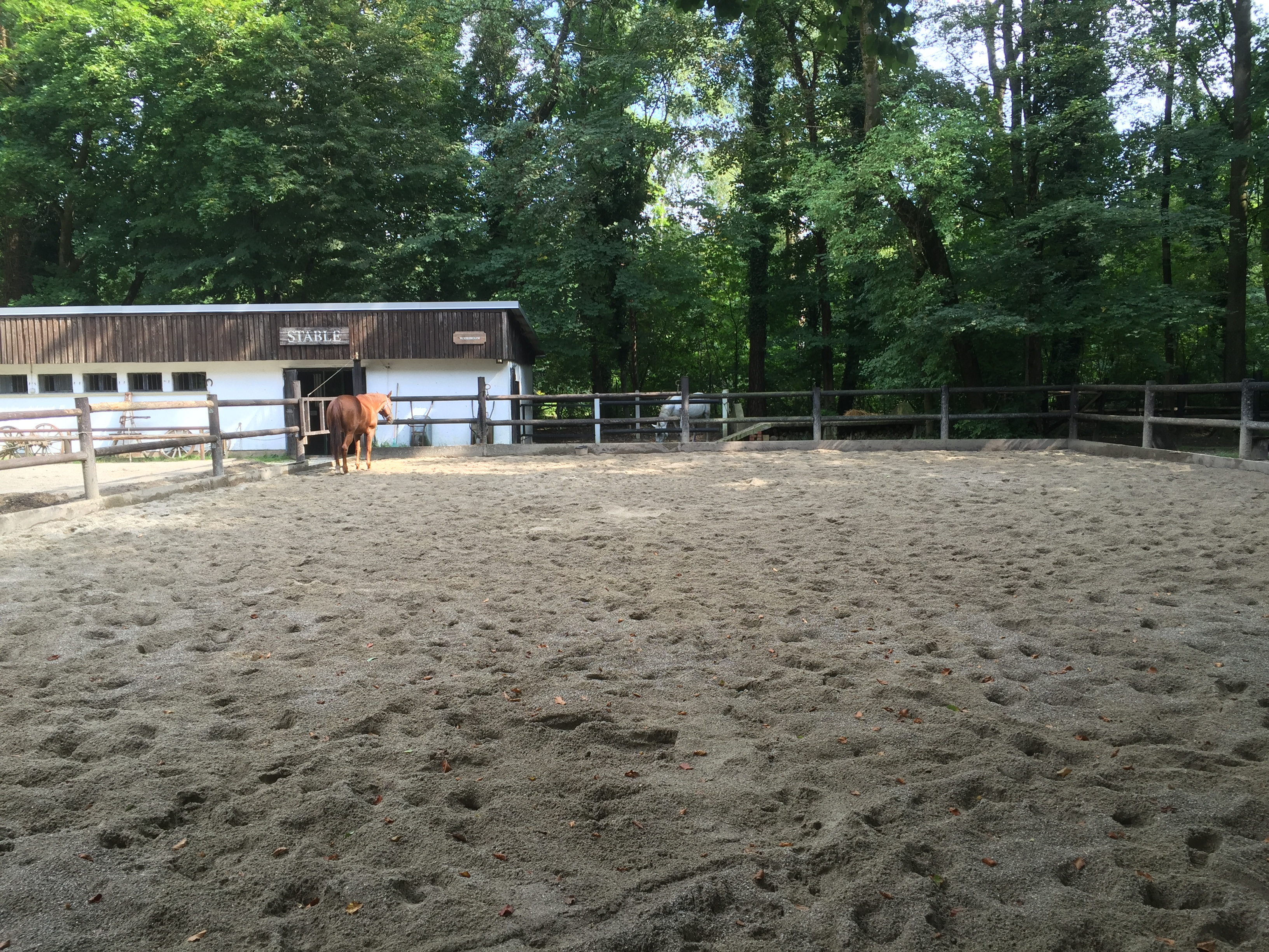 riding arena cowboy club Munich